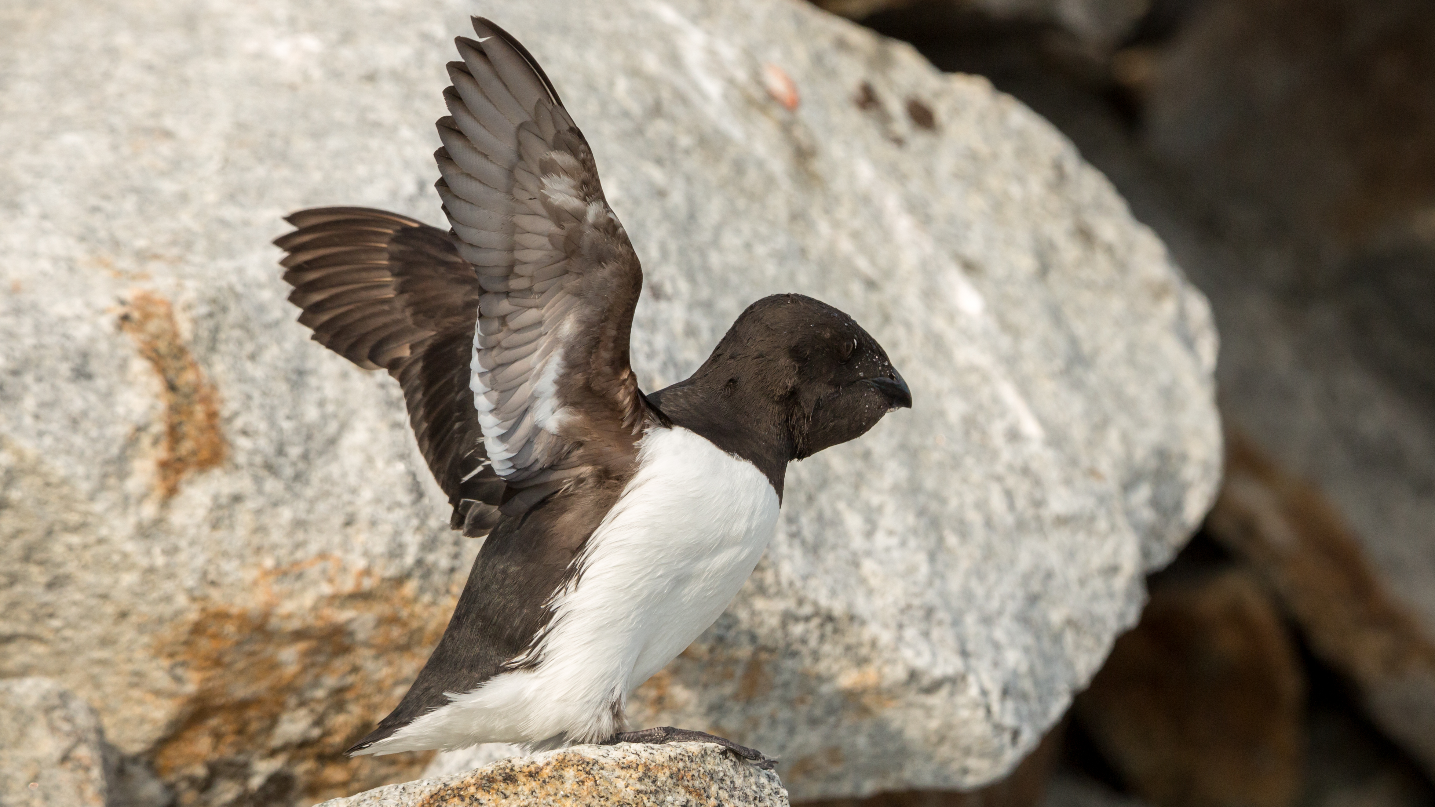 In summertime several 10 000 of the little auk Alle alle are breeding at the Fuglesongen rock in the north of Svalbard.